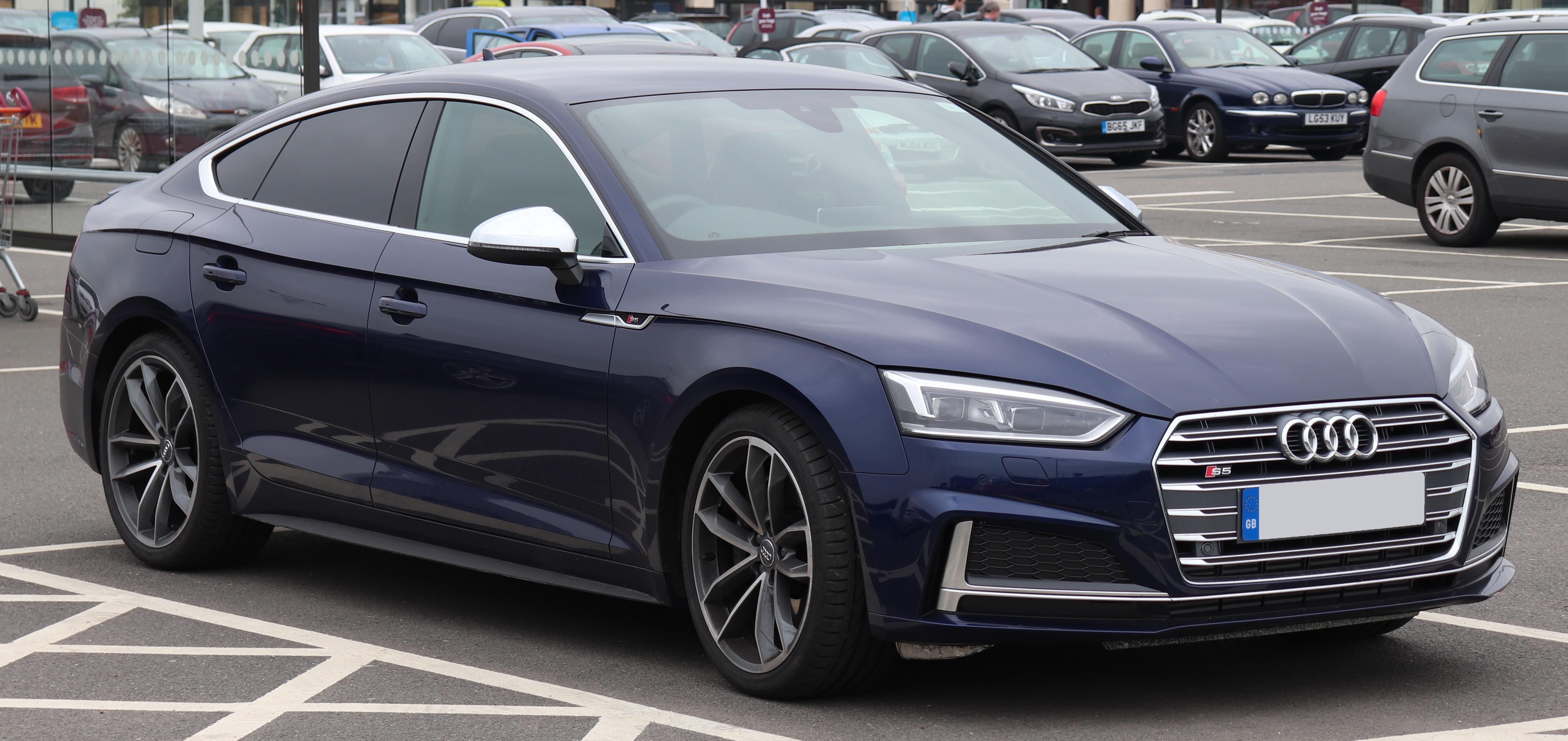 2018 Audi S5 TFSi Quattro Automatic 3.0 Front Taken in Leamington Spa